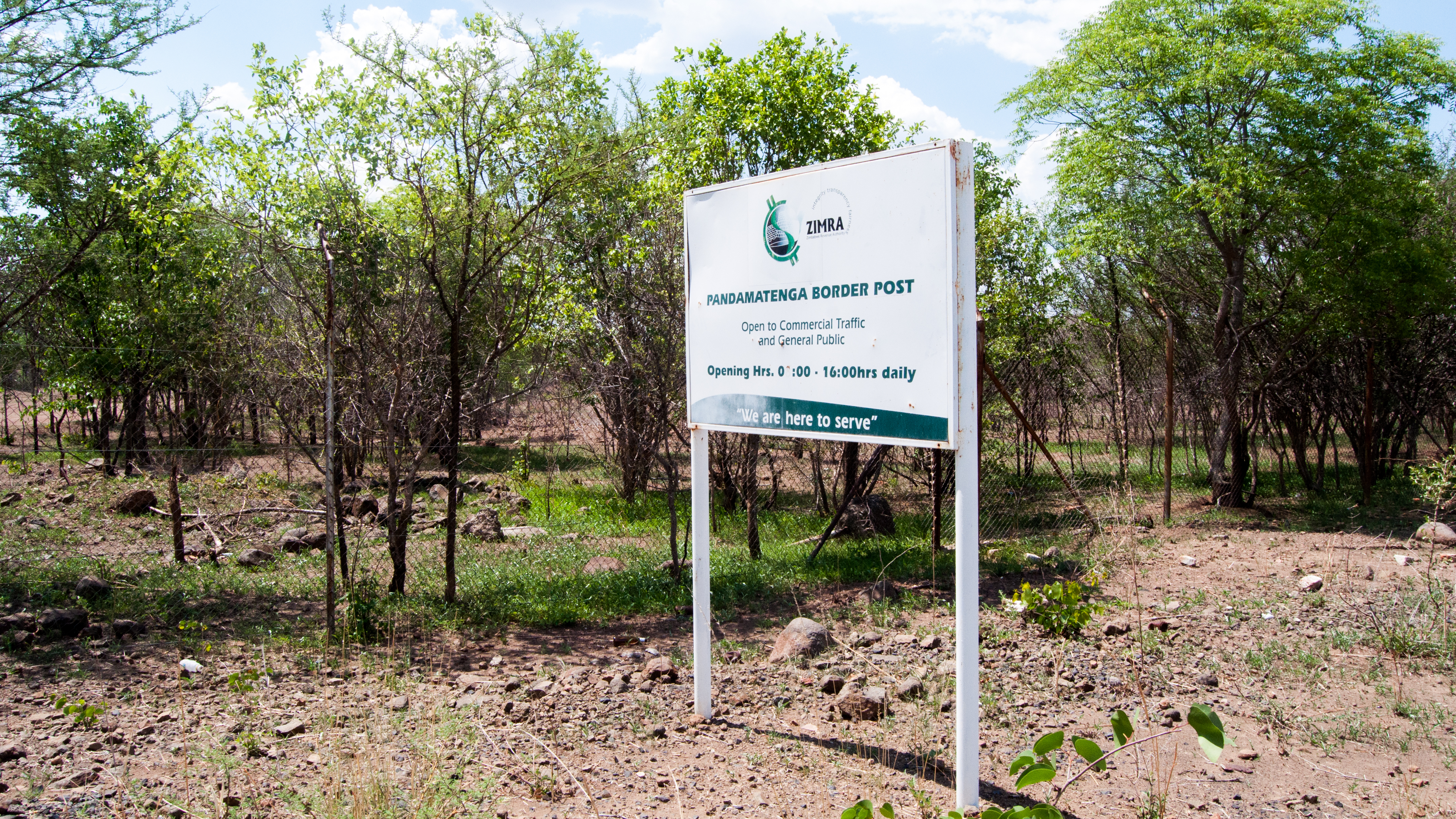 Pandamatenga Border Post Sign, Zimbabwe by Meraj Chhaya